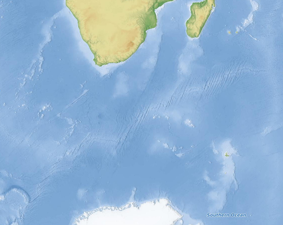 Topographic map of the Southwest Indian Ridge